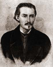 Casimiro José Marques de Abreu ( Barra de São João , January 4, 1839 - St. John Bar, 18 October 1860) was a Brazilian poet.